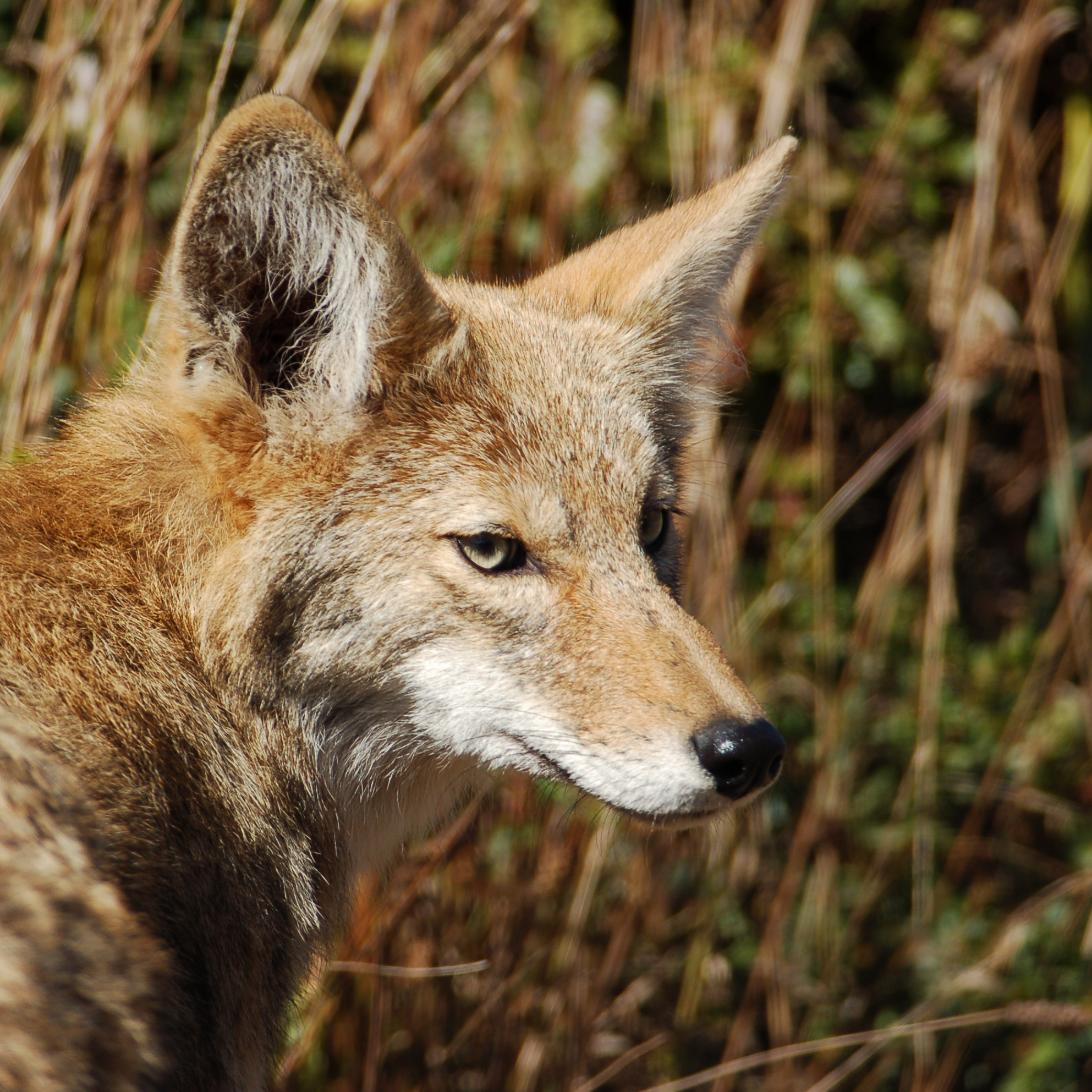 Coyote surveying her domain in the marin headlands.